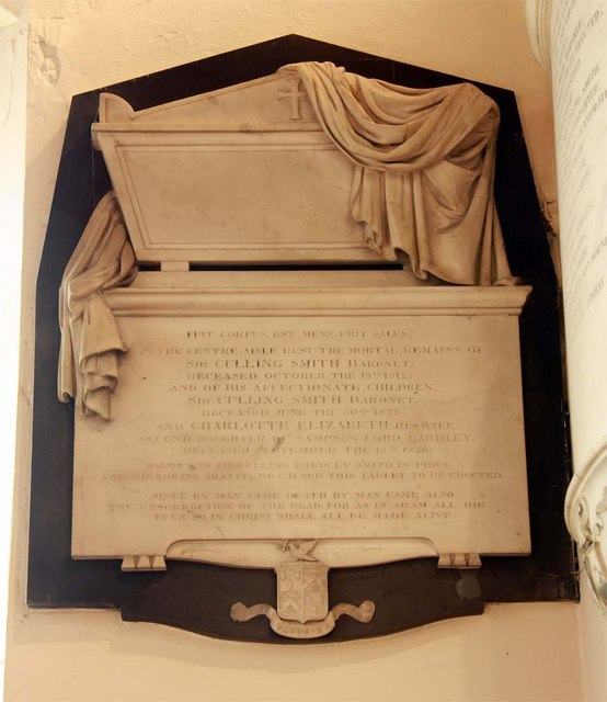 St Mary, Monken Hadley, Herts - Wall monument